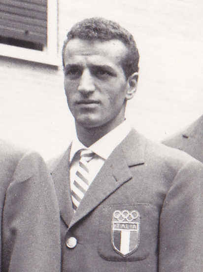 Sandro Lopopolo, 1960 Olympics